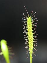 Drosera linearis lamina detail